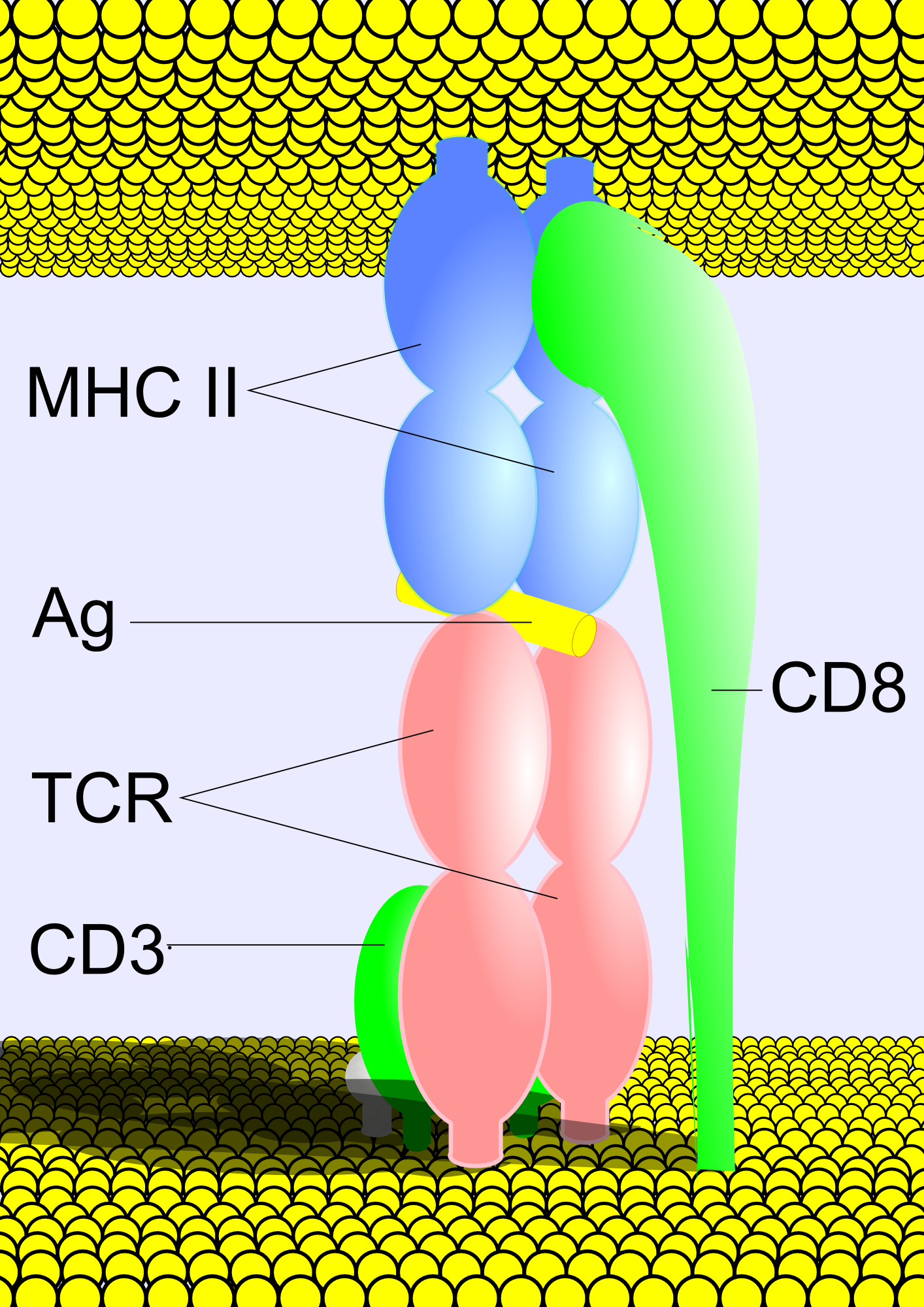 Complex of the T cell receptor, peptide (antigen), major histocompatibility complex class II molecule and CD8